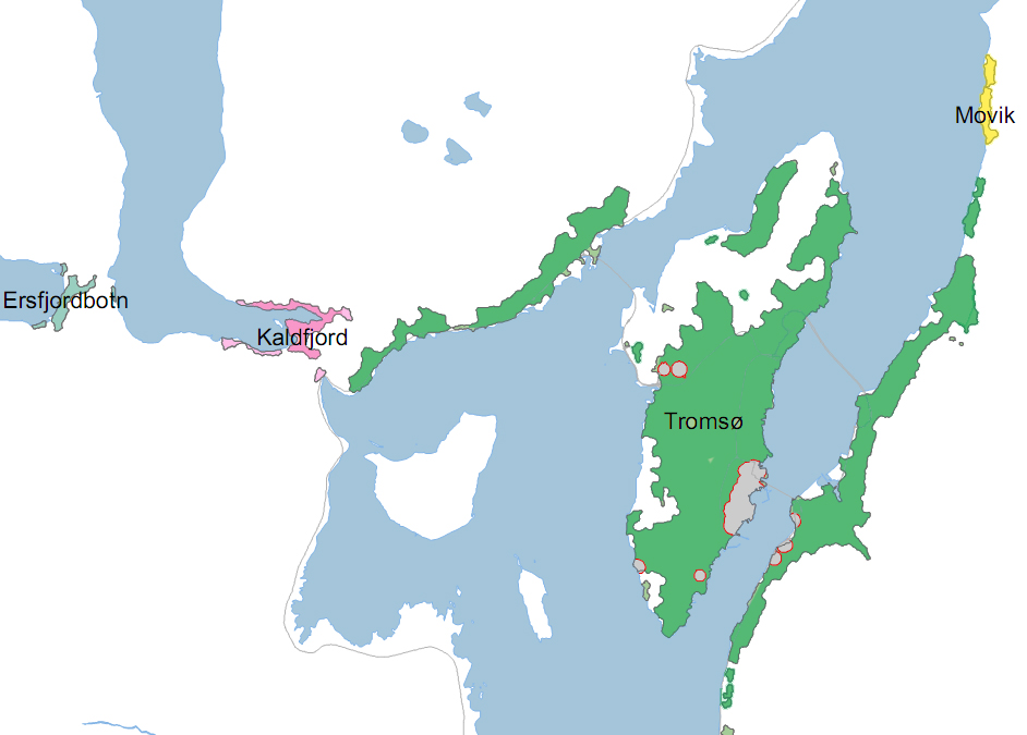 Urban areas of Tromsø